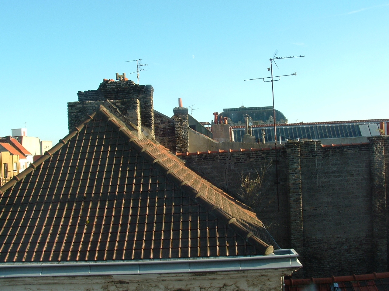 Photo of Calais: Chimneys & Roofs